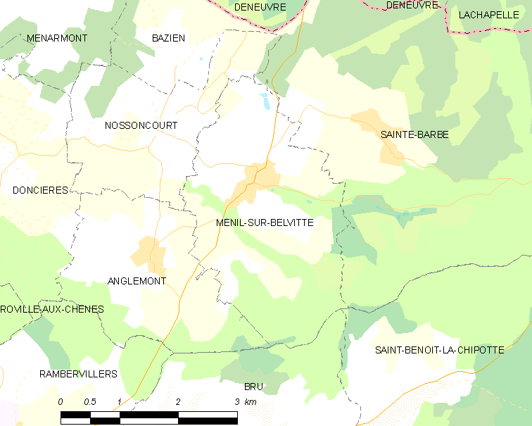 Map of French municipality Ménil-sur-Belvitte